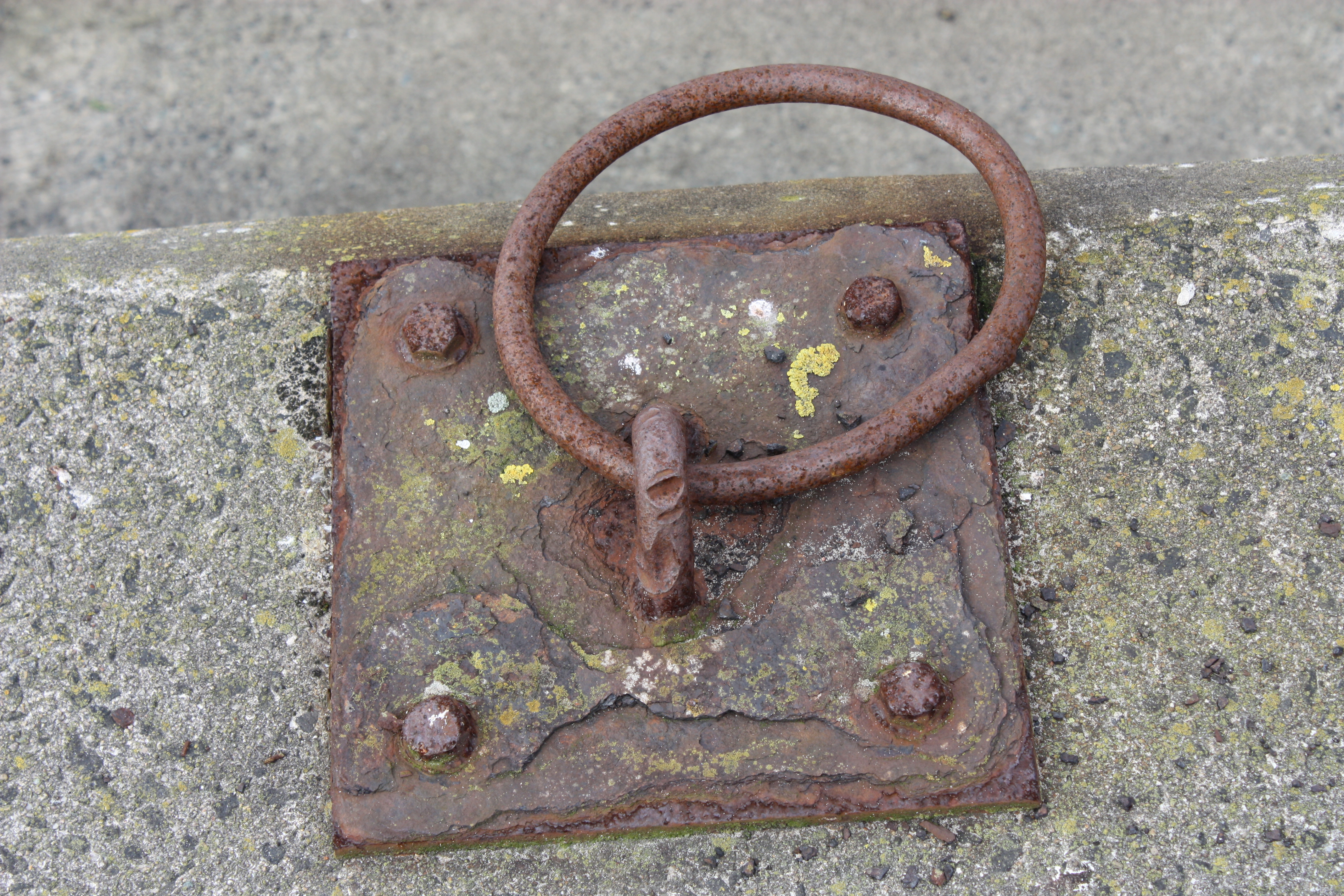 Mooring ring, Ballycastle Harbour, Ballycastle, County Antrim, Northern Ireland, September 2010